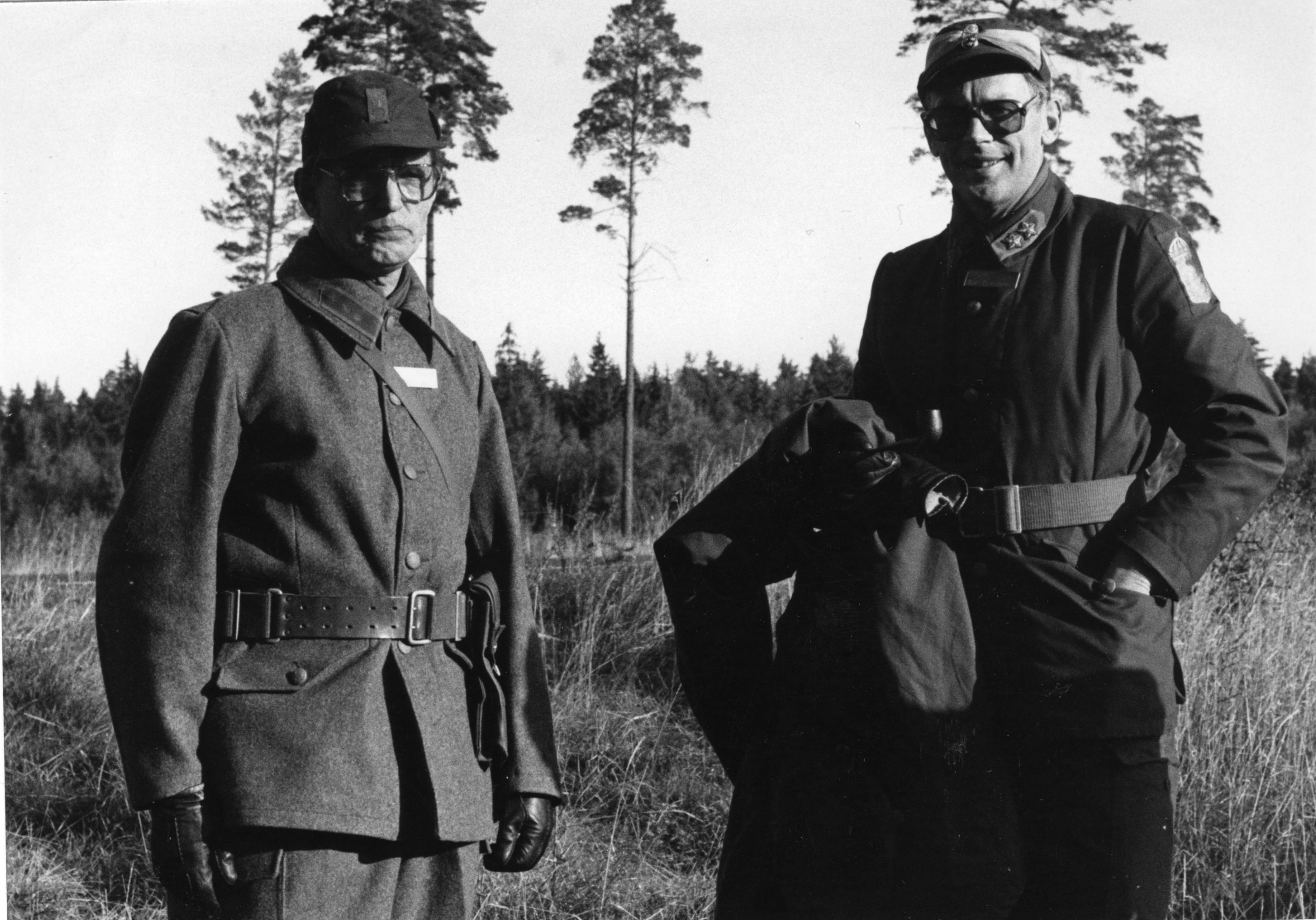 Colonel Lars Carlson (left), regimental commander of Småland Artillery Regiment (A 6), and the commanding officer of the Southern Military District (Milo S) (NOTE! This information coming from the original page of the image is unclear. This is not the commander of Milo S if the image was taken 1982-1985 when Carlson was head of the A 6).